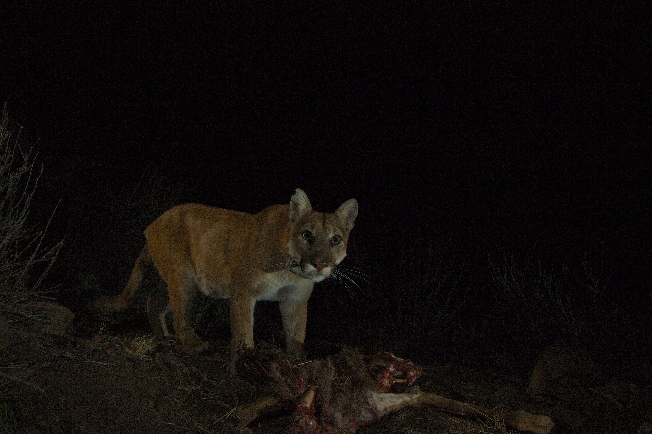 If you look closely, you can see the bottom of her collar. Taken March 2014 near Malibu Creek State Park. Courtesy of National Park Service